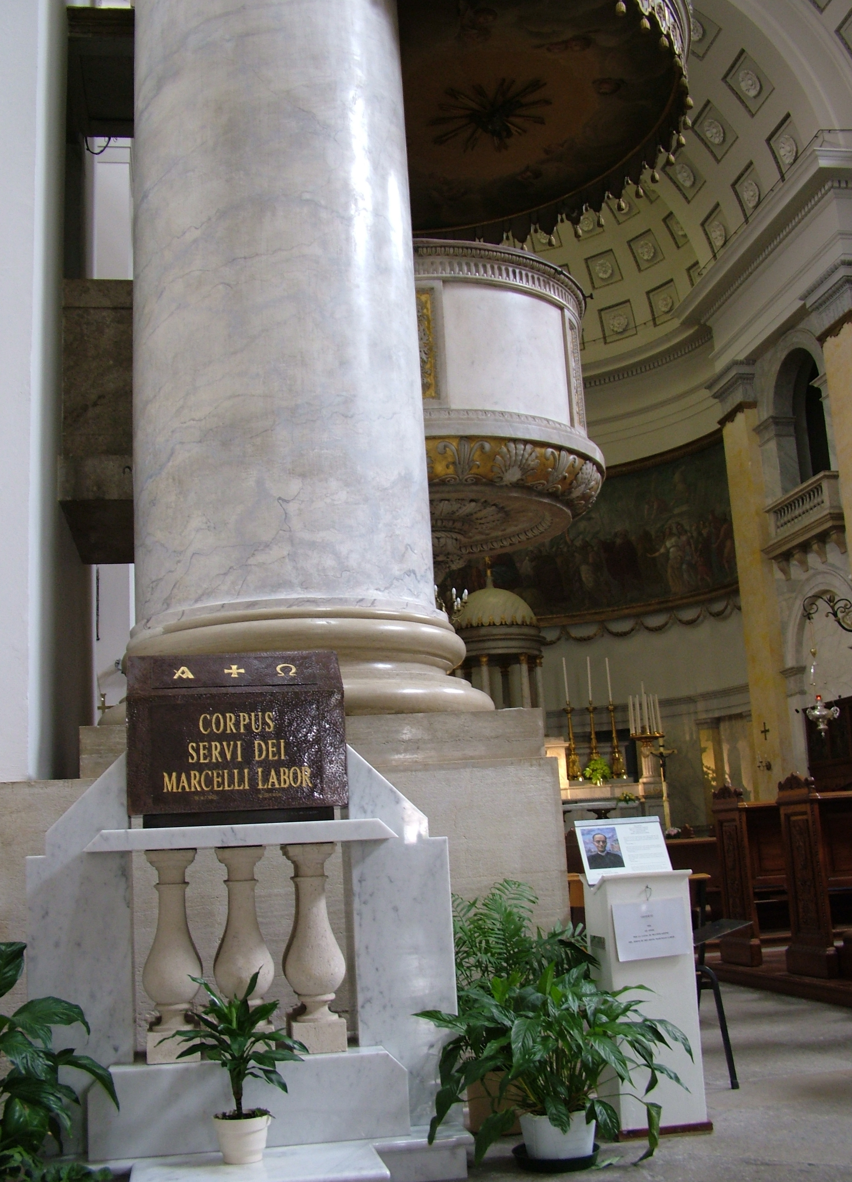 Urn containing the mortal remains of Marcello Labor (Trieste, 8 luglio 1890 – Trieste, 29 settembre 1954) in church of Sant'Antonio Taumaturgo in Trieste